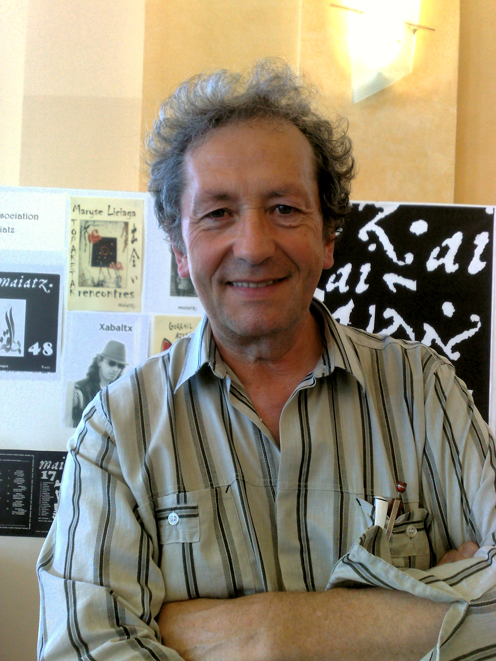 Basque language journalist and writer Luzien Etxezaharreta (Hazparne, Lapurdi-Labourd, Basque Country) at the Biarritz Book Fair, Aug. 2010.